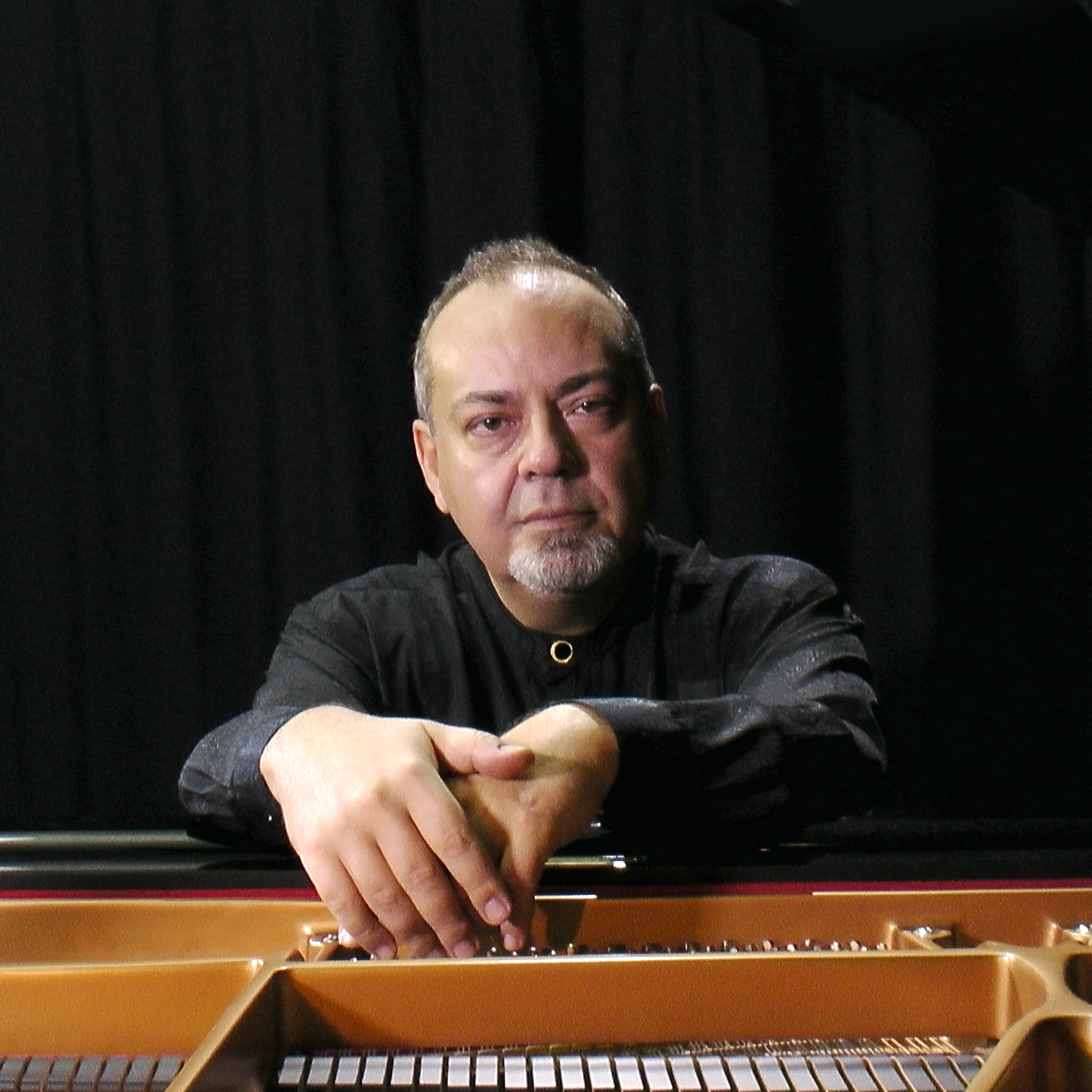 Mehmet Okonsar official portraits for Wikimedia: 3